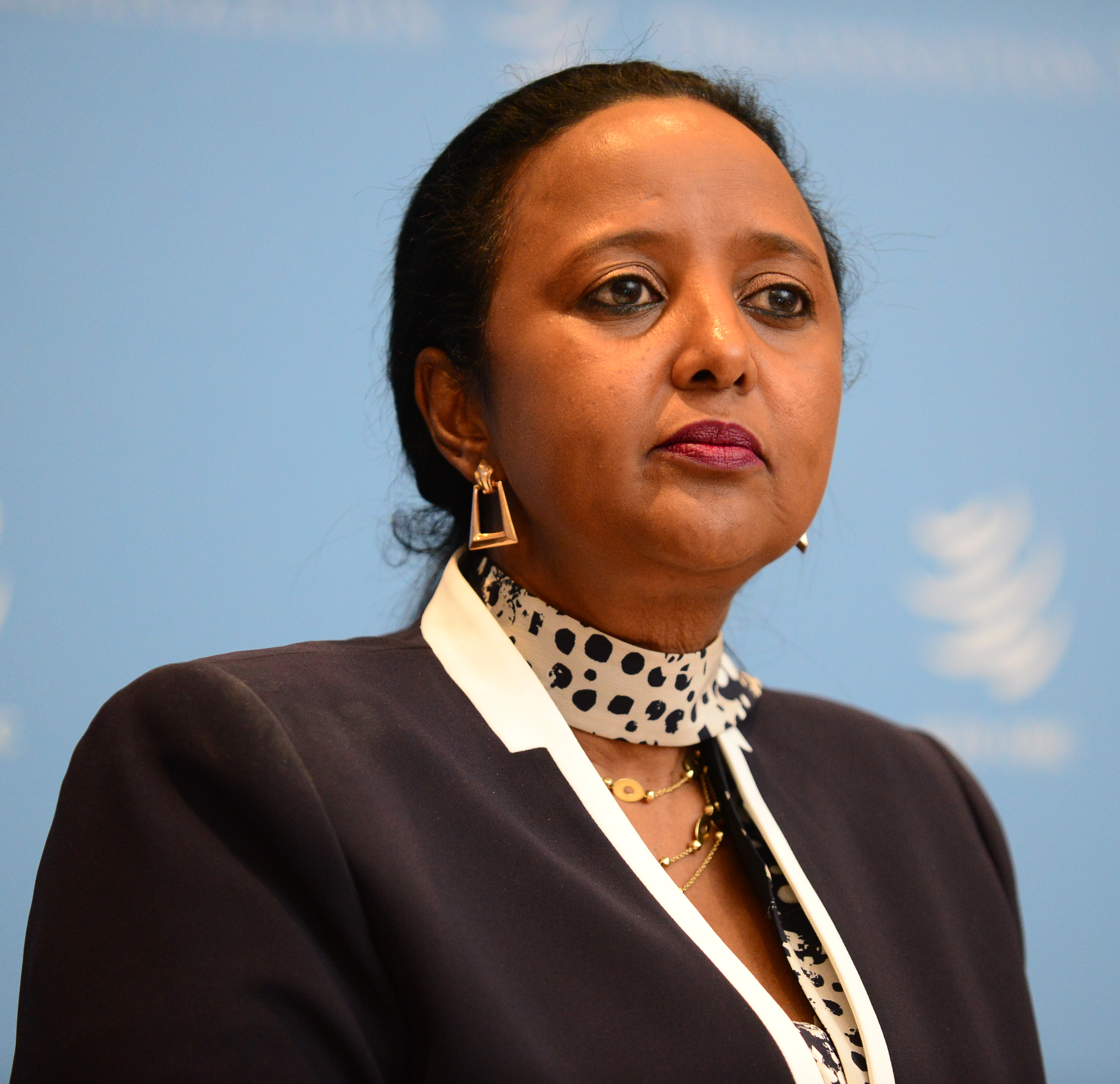 Amina Mohamed